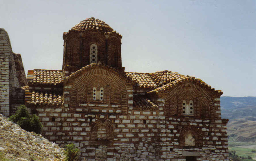 Byzantine Holy Trinity church in the castle area of Berat (Albania), photo: 1993.